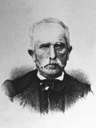 Theodoros Kiosses (1802-?): Fighter of the Greek Independence